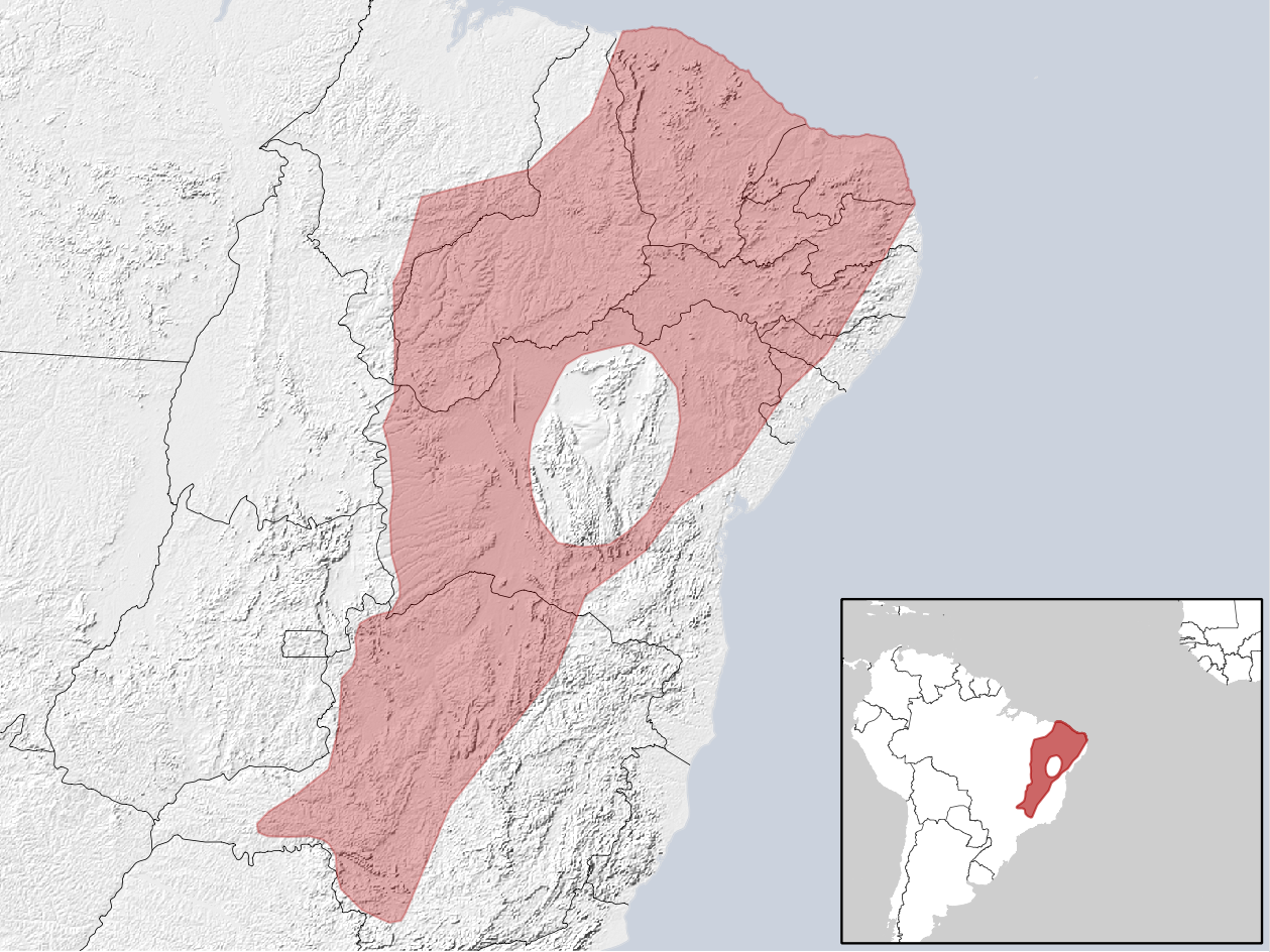 geographic distribution of Thrichomys apereoides